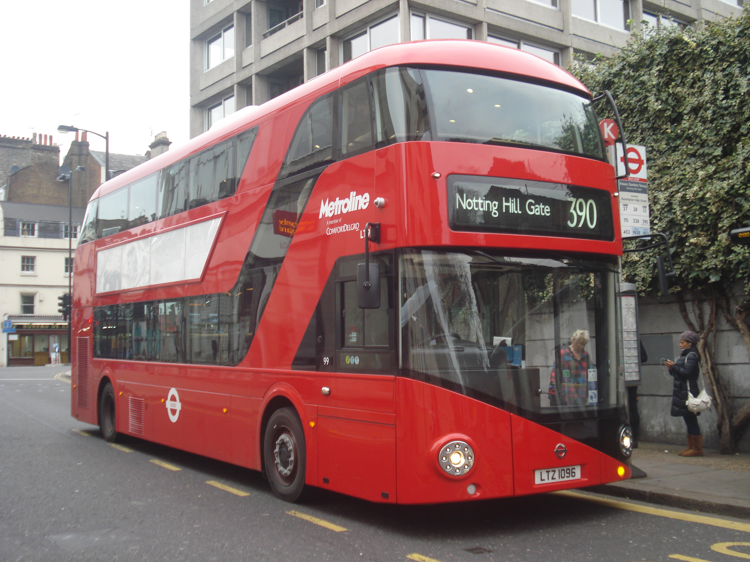 Metroline LT96 on Route 390, Notting Hill Gate